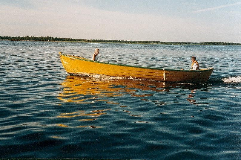 Picture of a Brännbacka 23 glassfiber boat made in Luoto, Finland